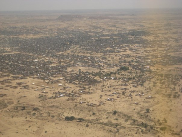 Aerial view of Abéché, Tchad